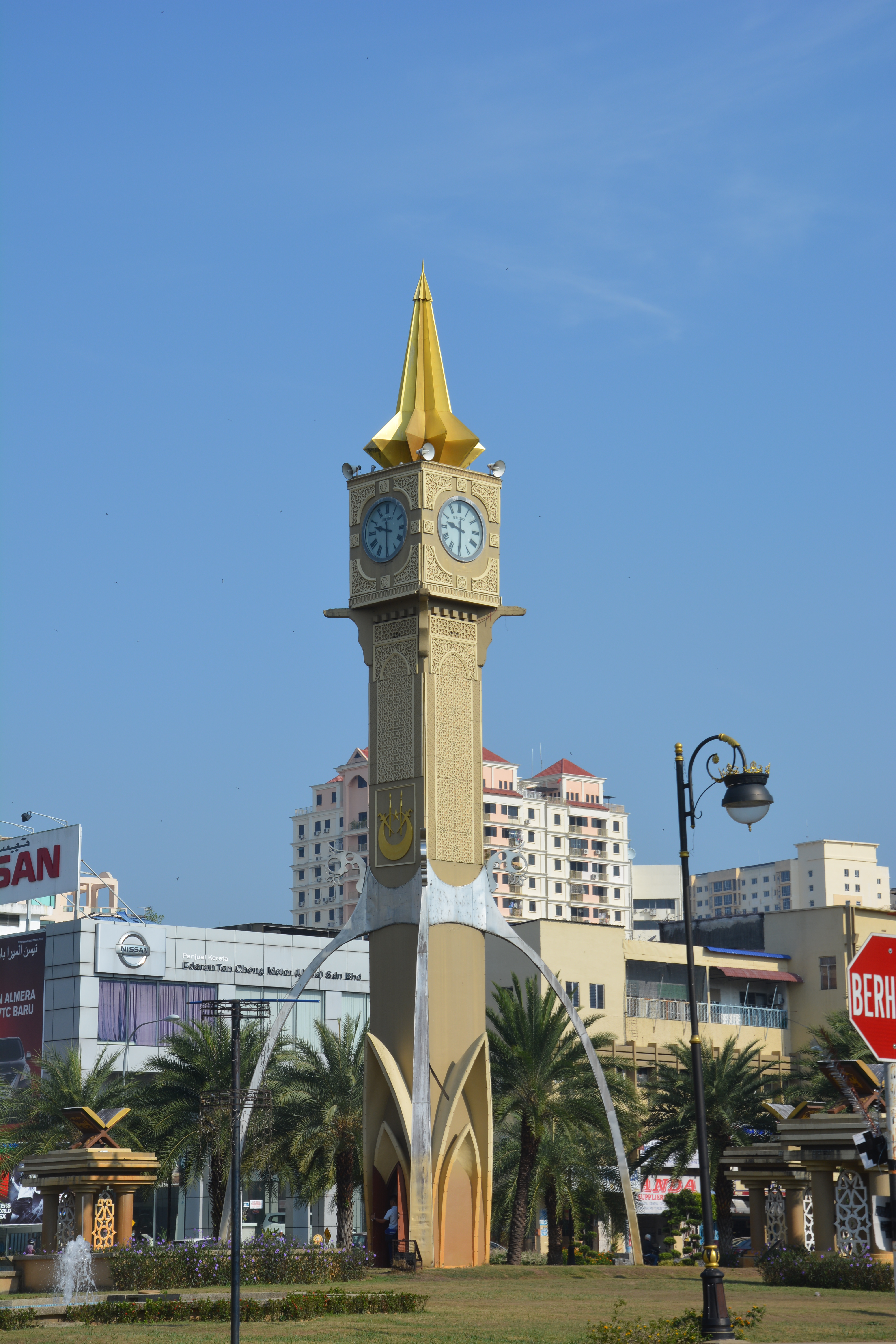 Kota Bharu, Clcok tower, Malaysia